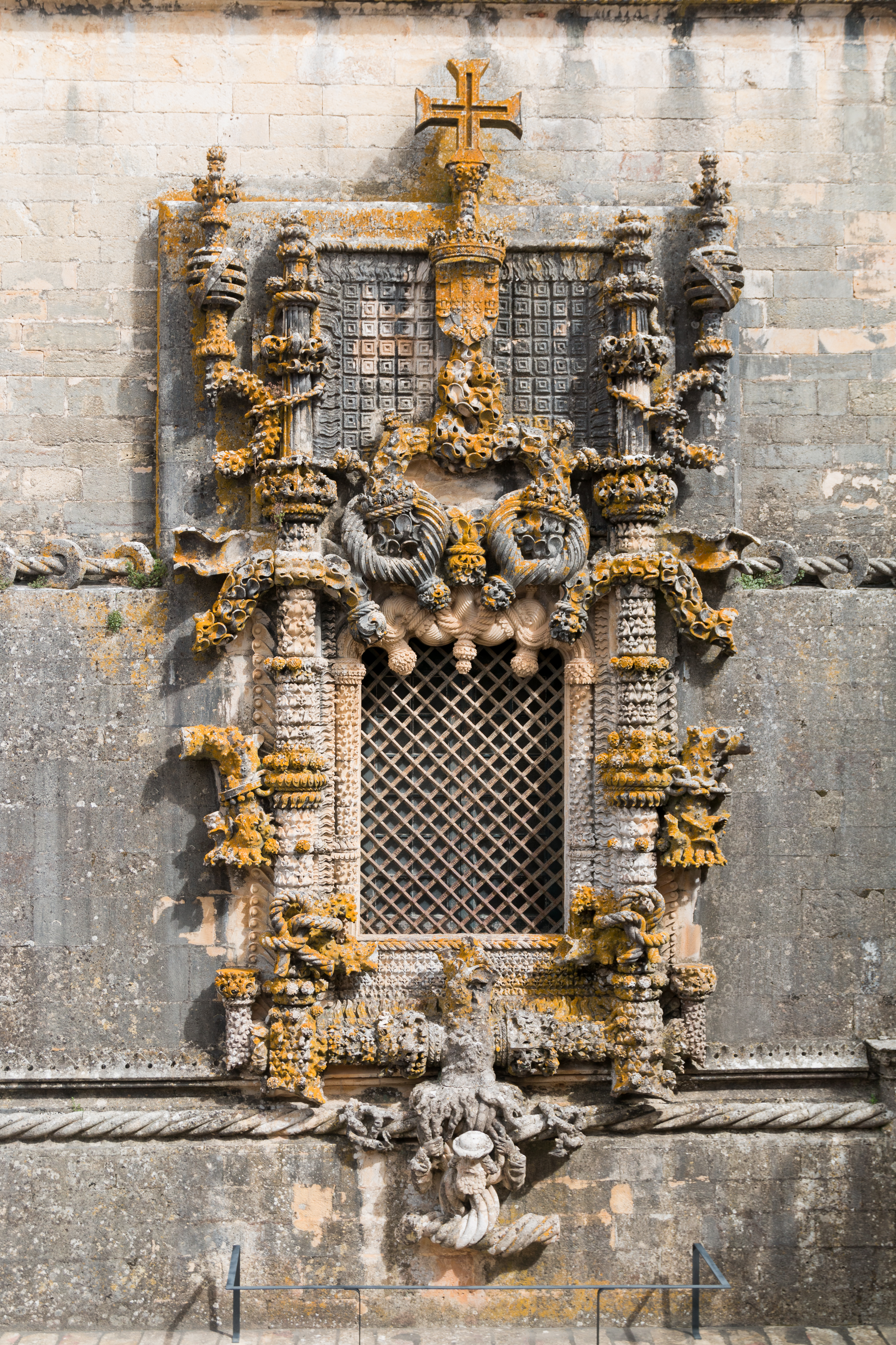 Manueline window, outside the window of the chapter house.